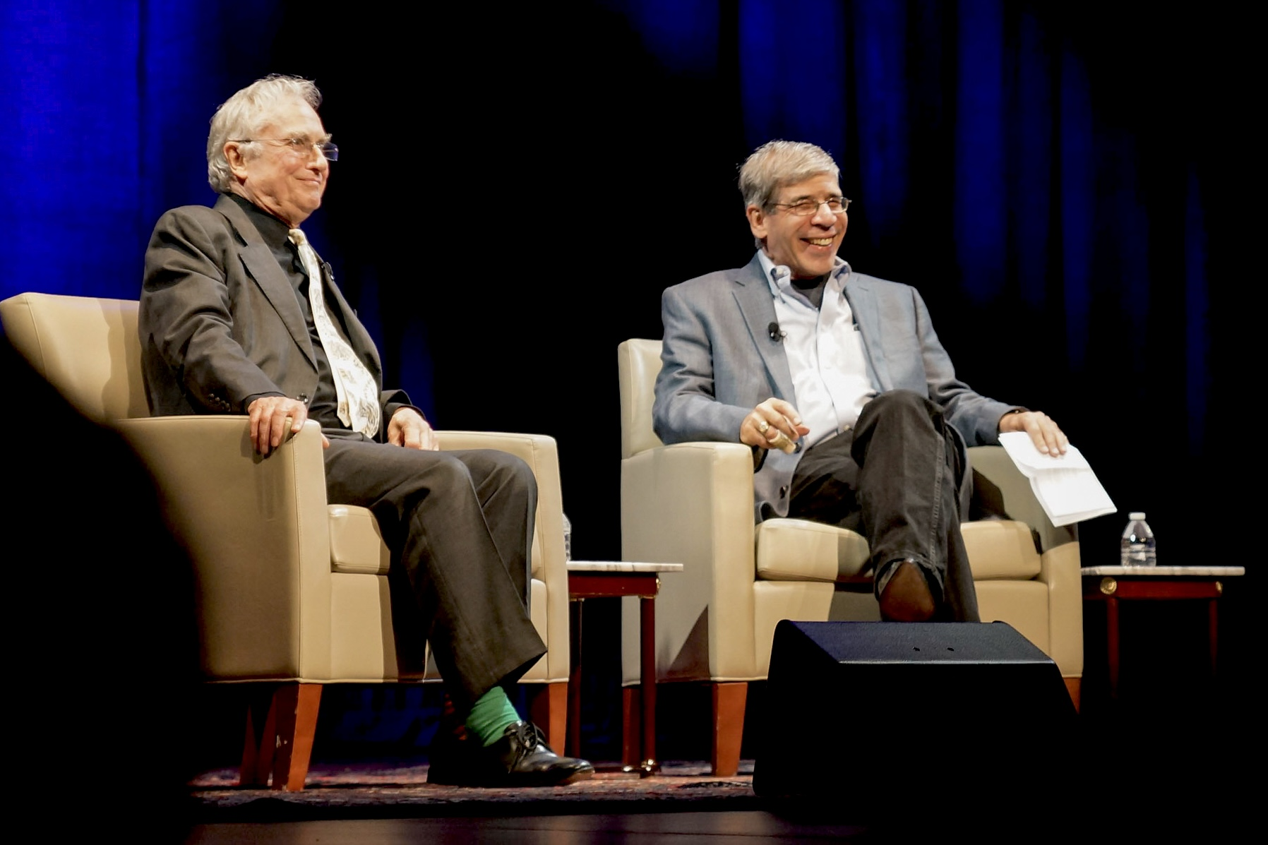 Richard Dawkins and Jerry Coyne in discussion at Lisner Auditorium, George Washington University, Washington, DC on May 24, 2017. Sponsored by Center for Inquiry-DC.